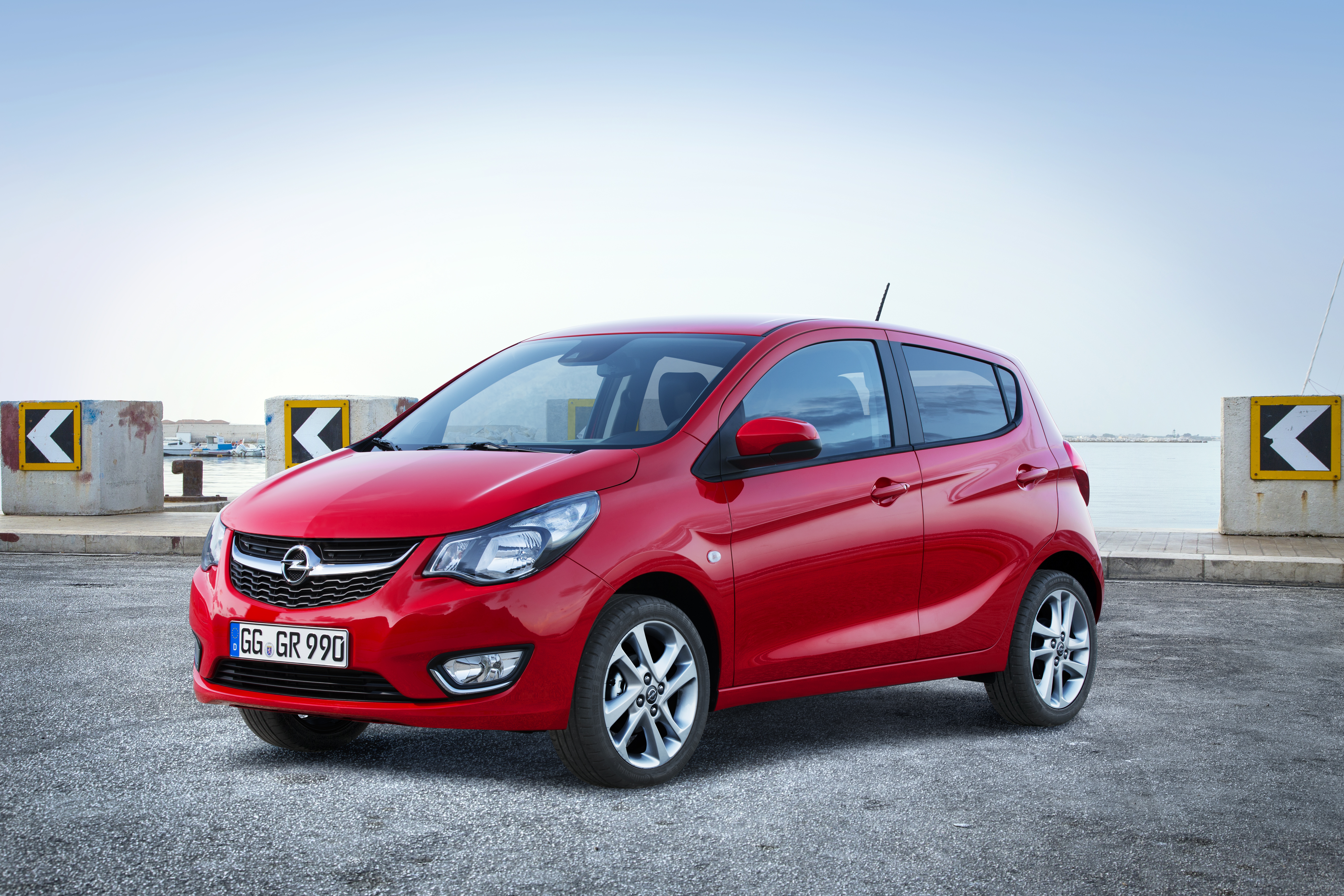 Opel KARL